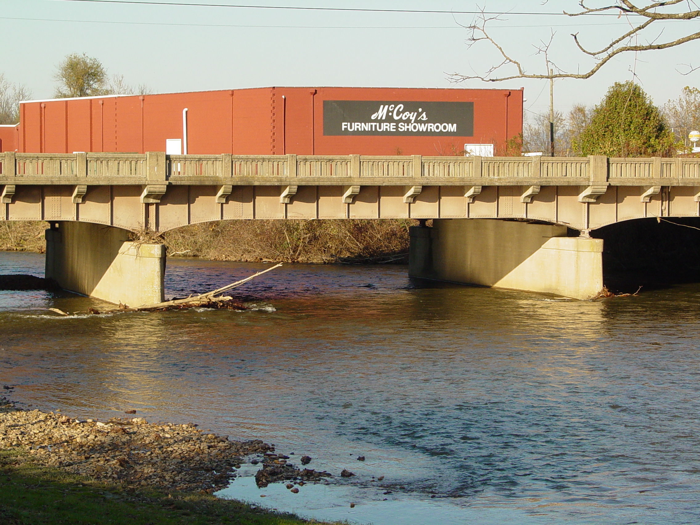 The South River (South Fork Shenandoah River) as it flows through downtown Waynesboro, Virginia.